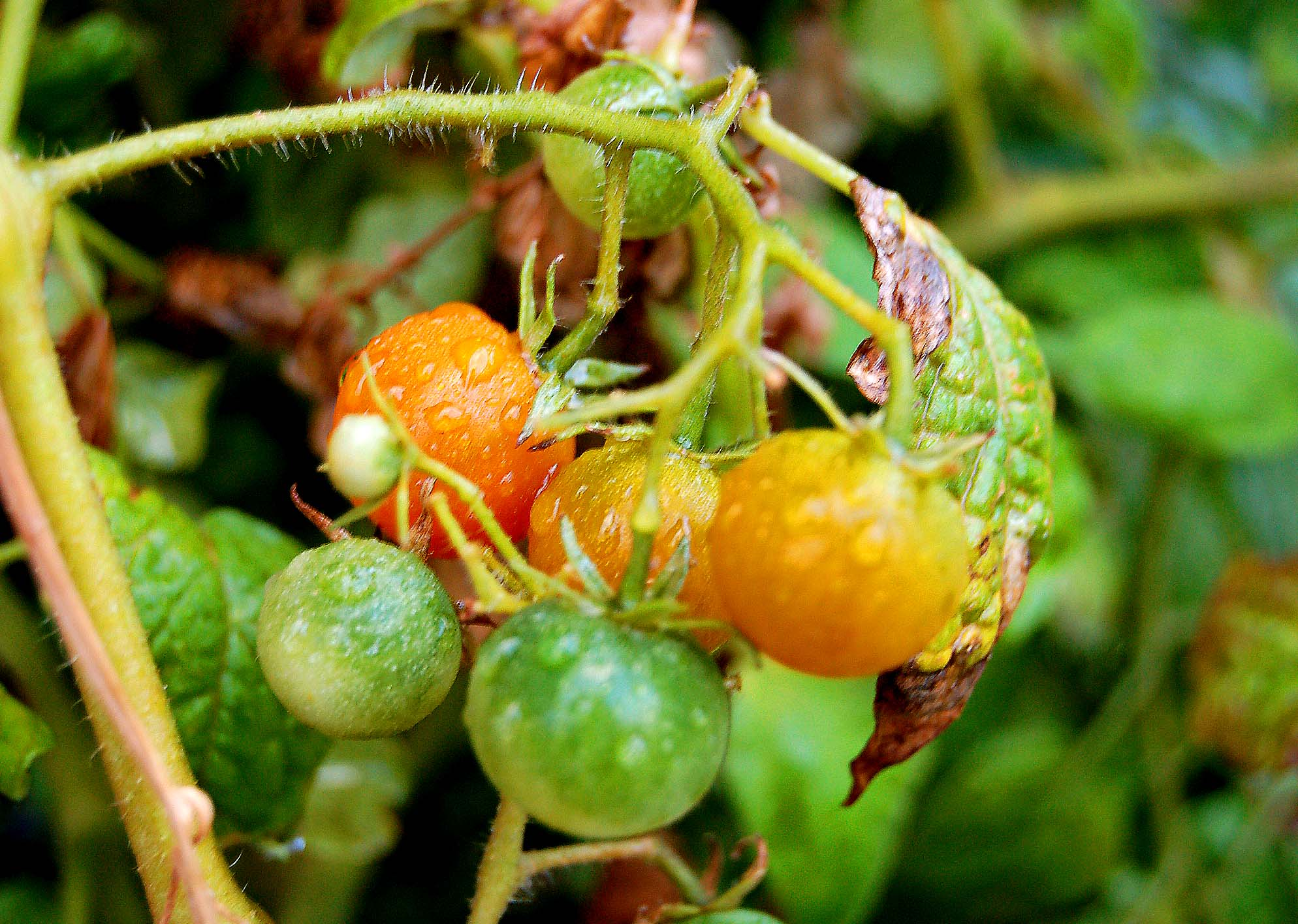 Grape tomatoes growing on a vine with water droplets on them